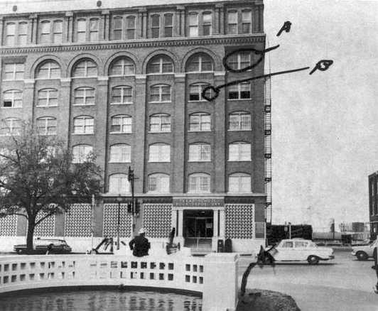 Howard Leslie Brennan sitting across the street from the Texas School Book Depository in the same position in Dealey Plaza in Dallas where he saw a man shooting a rifle at U.S. President John F. Kennedy from the corner window of the sixth floor, on November 22, 1963. Photograph (as marked by Brennan) from the Warren Commission Hearings and Evidence, vol. 17, p. 197, Commission Exhibit 477. The photograph was taken on March 20, 1964, and marked by Brennan during his testimony to show the window (A) in which he saw a man with a rifle, and the window (B) on the fifth floor in which he saw people watching the motorcade.